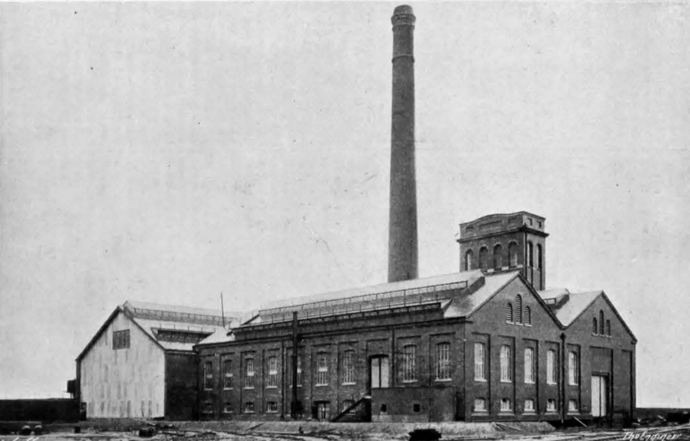 External view From a description of the power house of Immingham dock, UK (1912) Source: The Immingham Dock. No.III (7 June 1912).